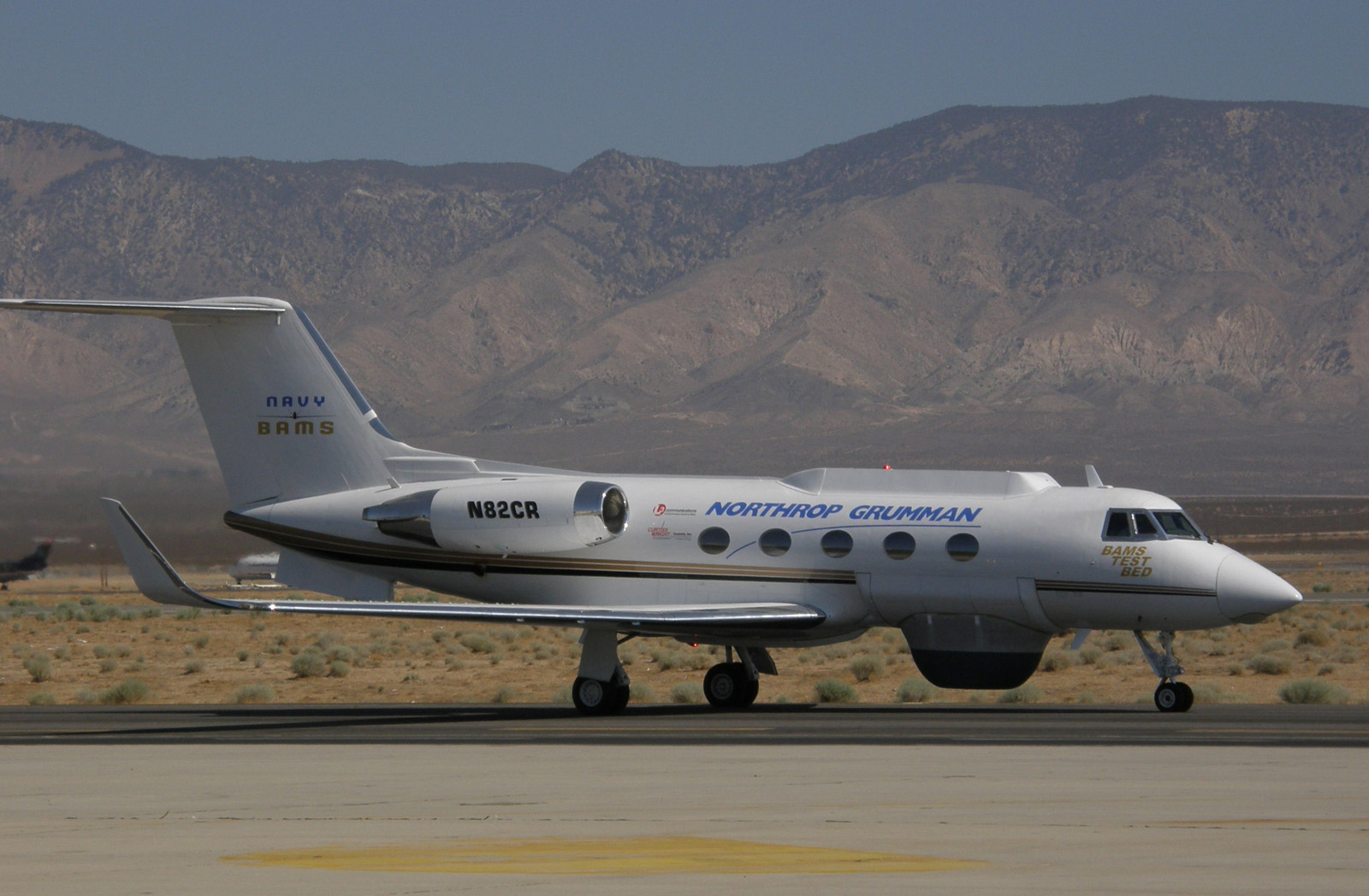 Grumman Gulstream GII modified as a flying testbed for the Northrop Grumman Broad Area Maritime Surveillance UAV contract bid.